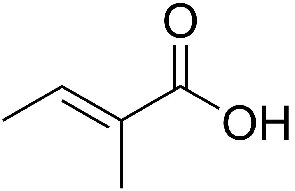 chemical structure of tiglic acid